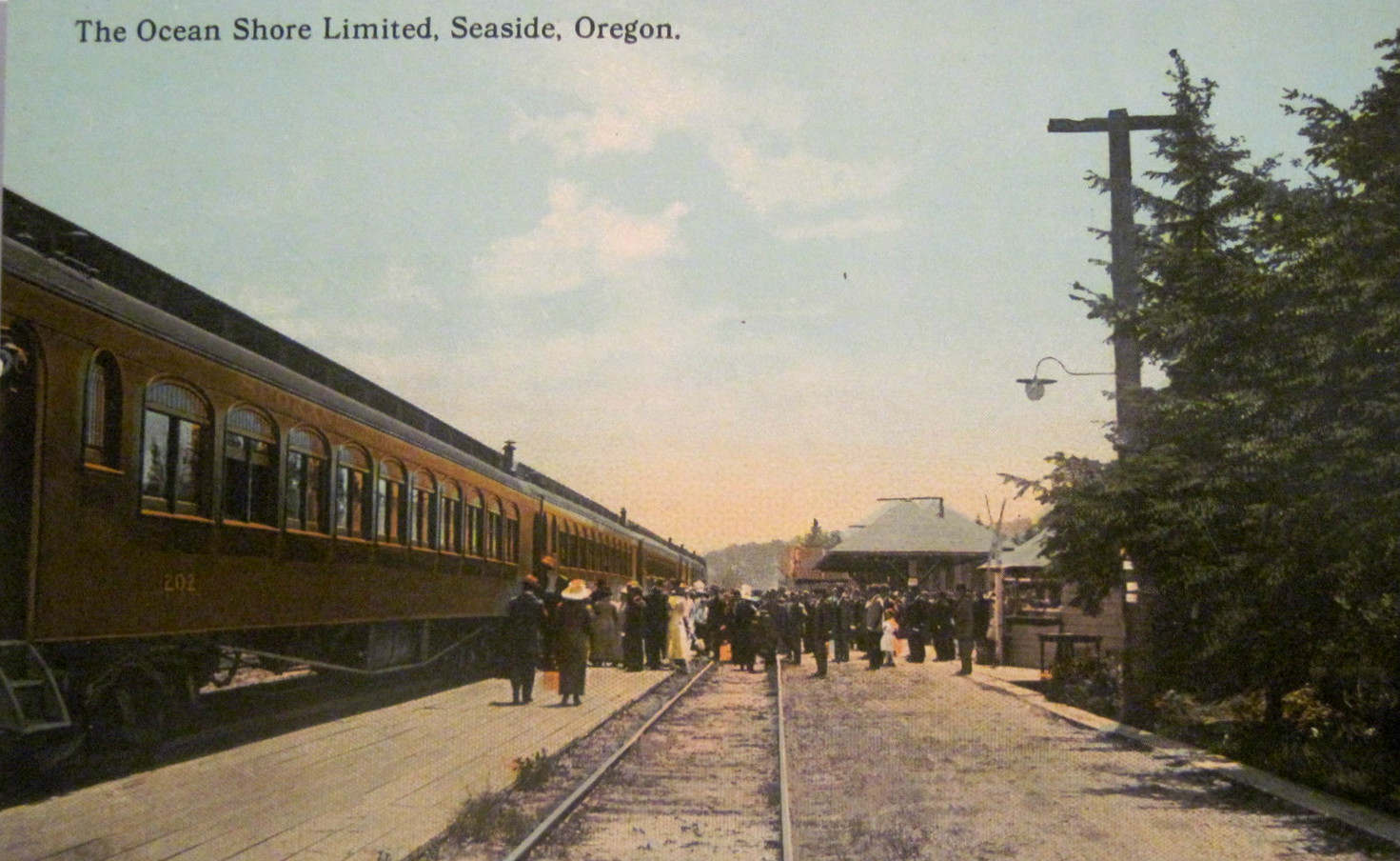 Postcard photo of the Ocean Shore Limited, which was a train of the Spokane, Portland and Seattle Railroad.